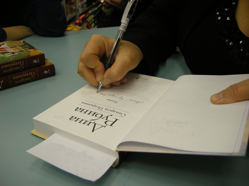 Dina Rubina's latest book- Синдром Петрушки